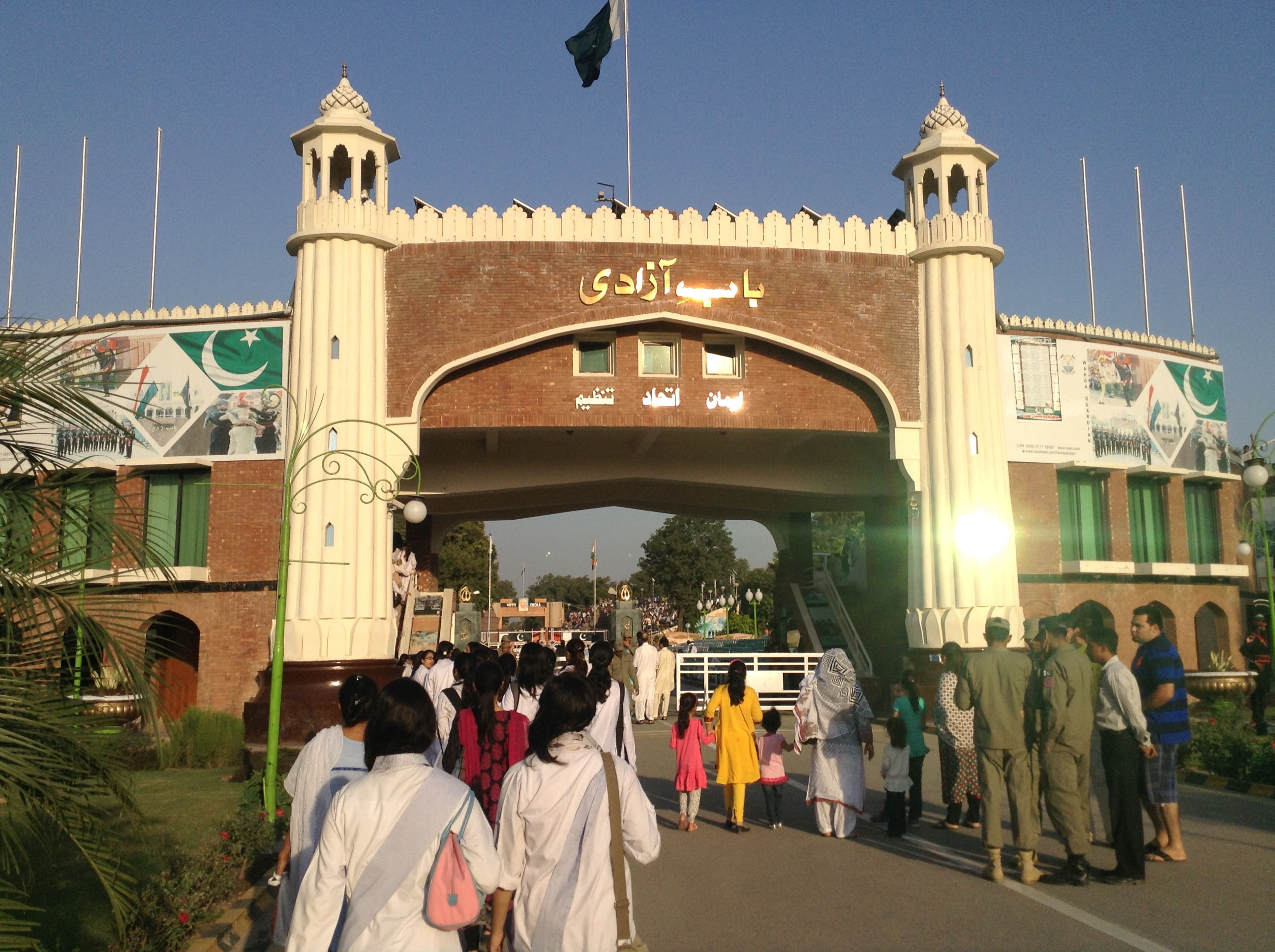 Wagha Border Gate This is a photo of a monument in Pakistan identified as the PB-50